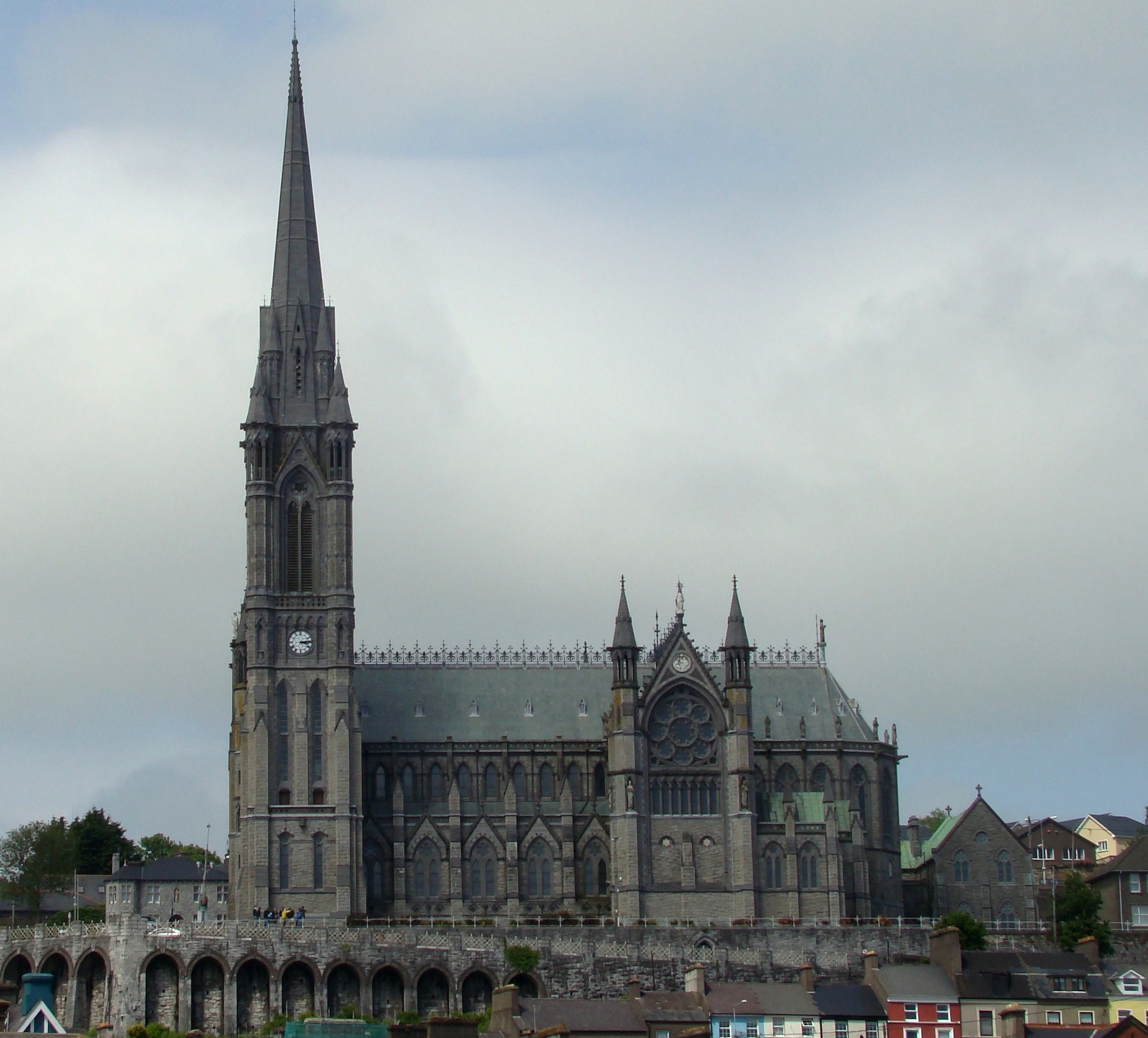 Cobh Cathedral above the town